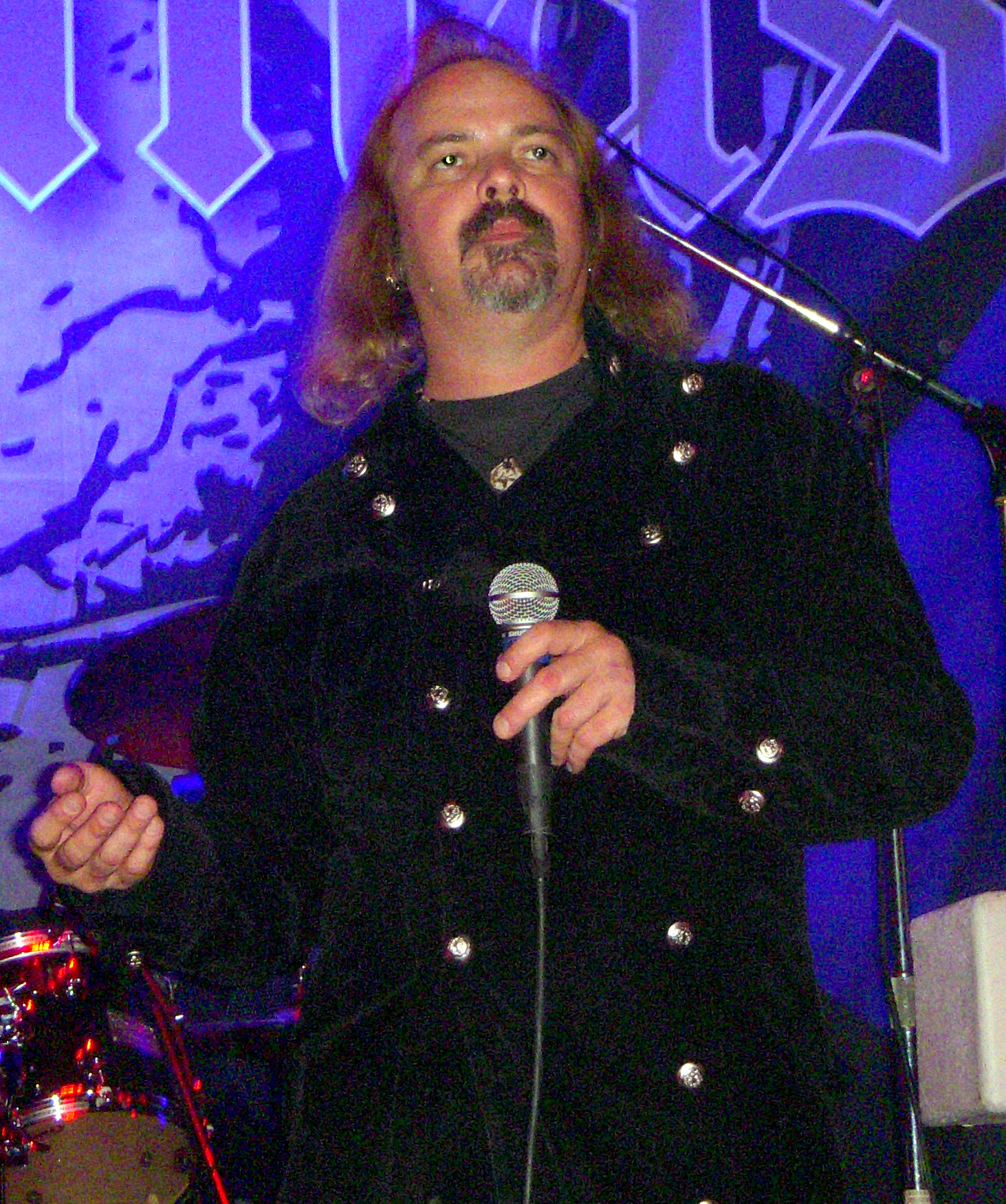 Robert Lowe, vocalist of Swedish Heavy metal band Candlemass